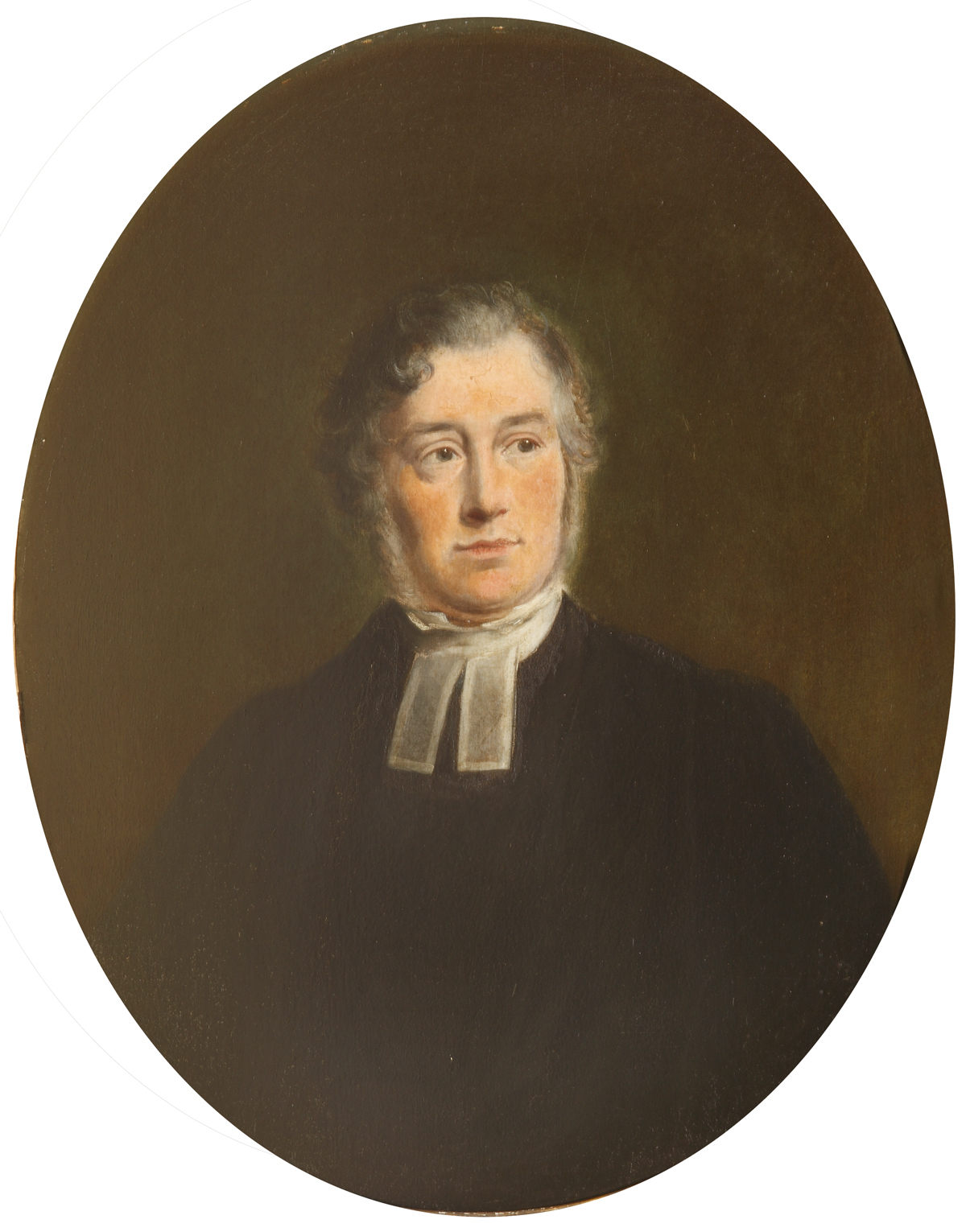 Portrait of Richard Michell (1805–1877), English churchman and academic.